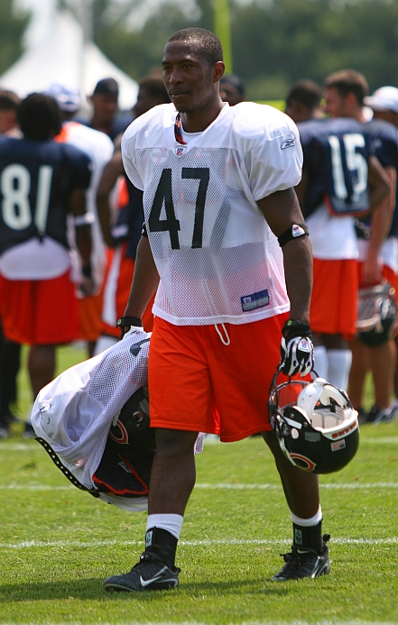 I took this picture of Tim Mixon on August 2, 2007 at the Chicago Bears 2007 Training Camp.